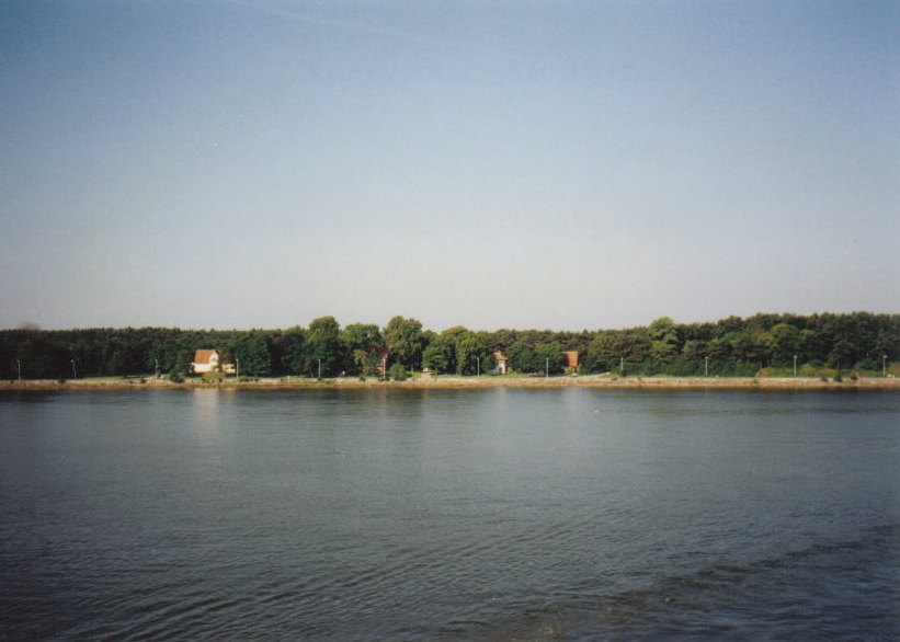 Curonian Spit / Kuršių nerija, Kuršių marios / Curonian Lagoon, Lithuania